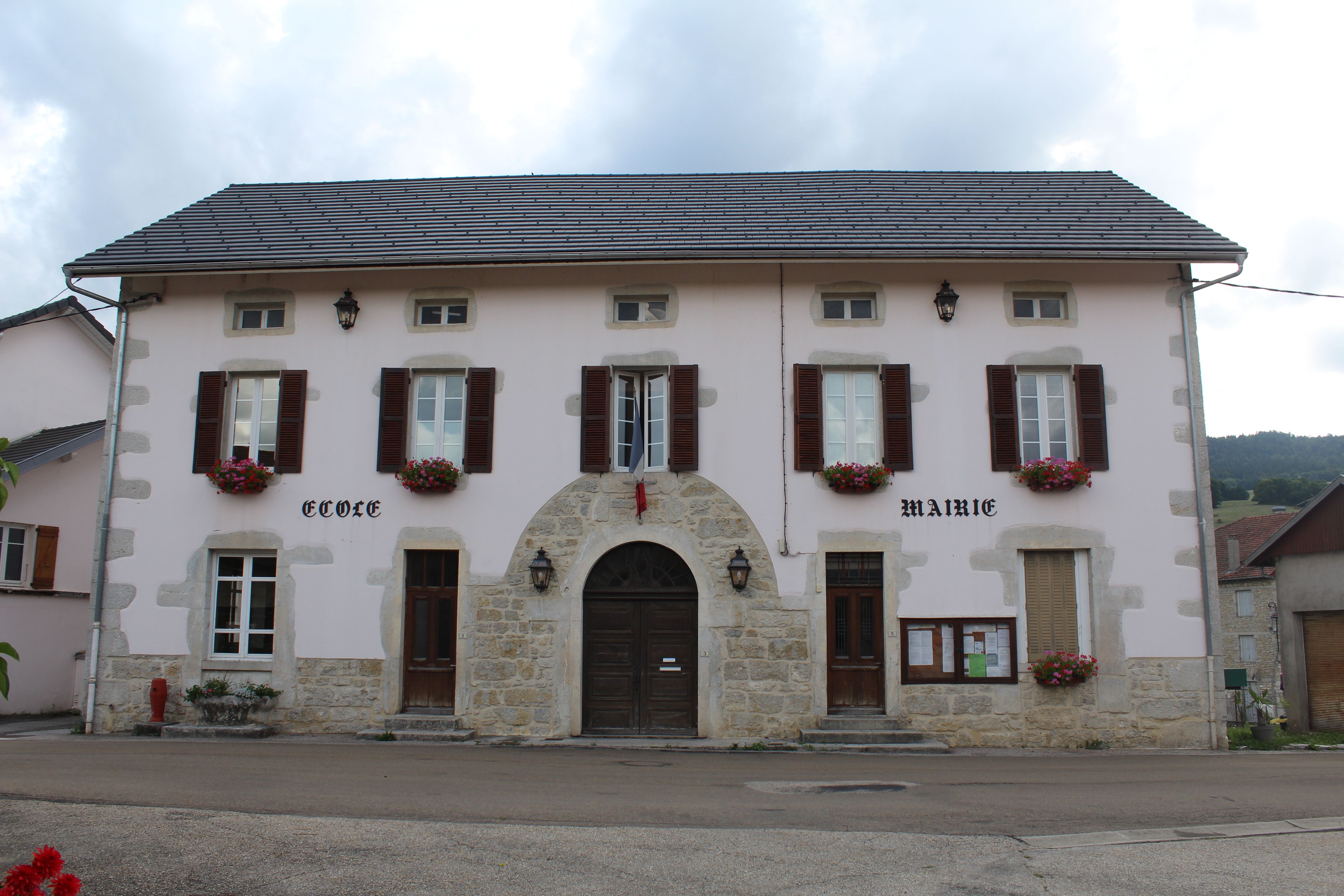 Unknown language: Mairie du Petit-Abergement, Haut-Valromey.